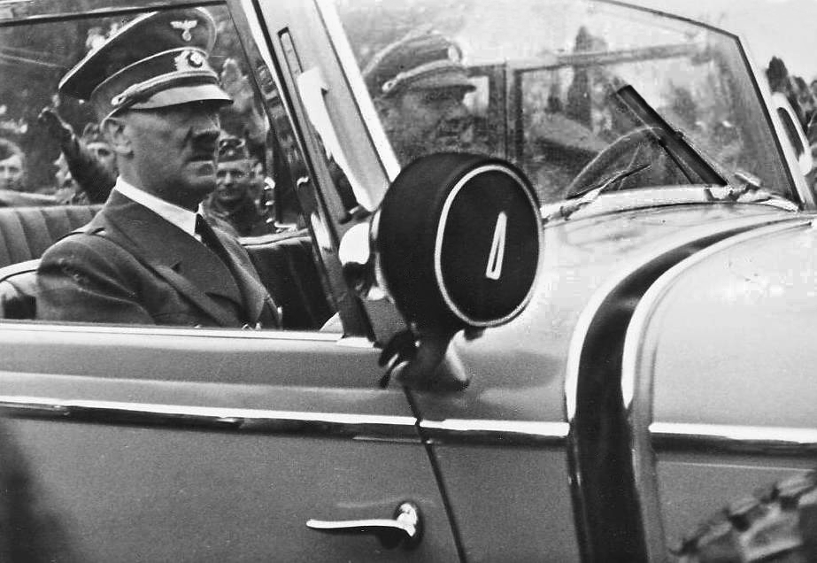 Hitler and his driver Erich Kempka drive past in Mercedes W31 in September 1939 in Poland at jubilant soldiers